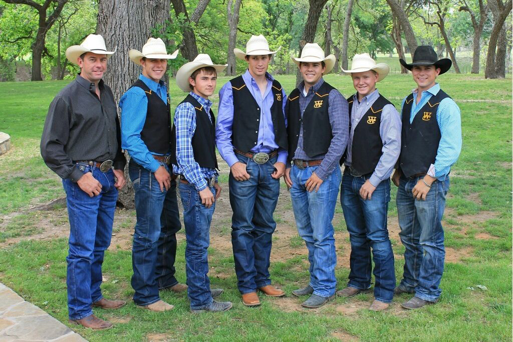 The 2014 Men's Rodeo Team is the first team in the history of the college to qualify for the College National Finals Rodeo.